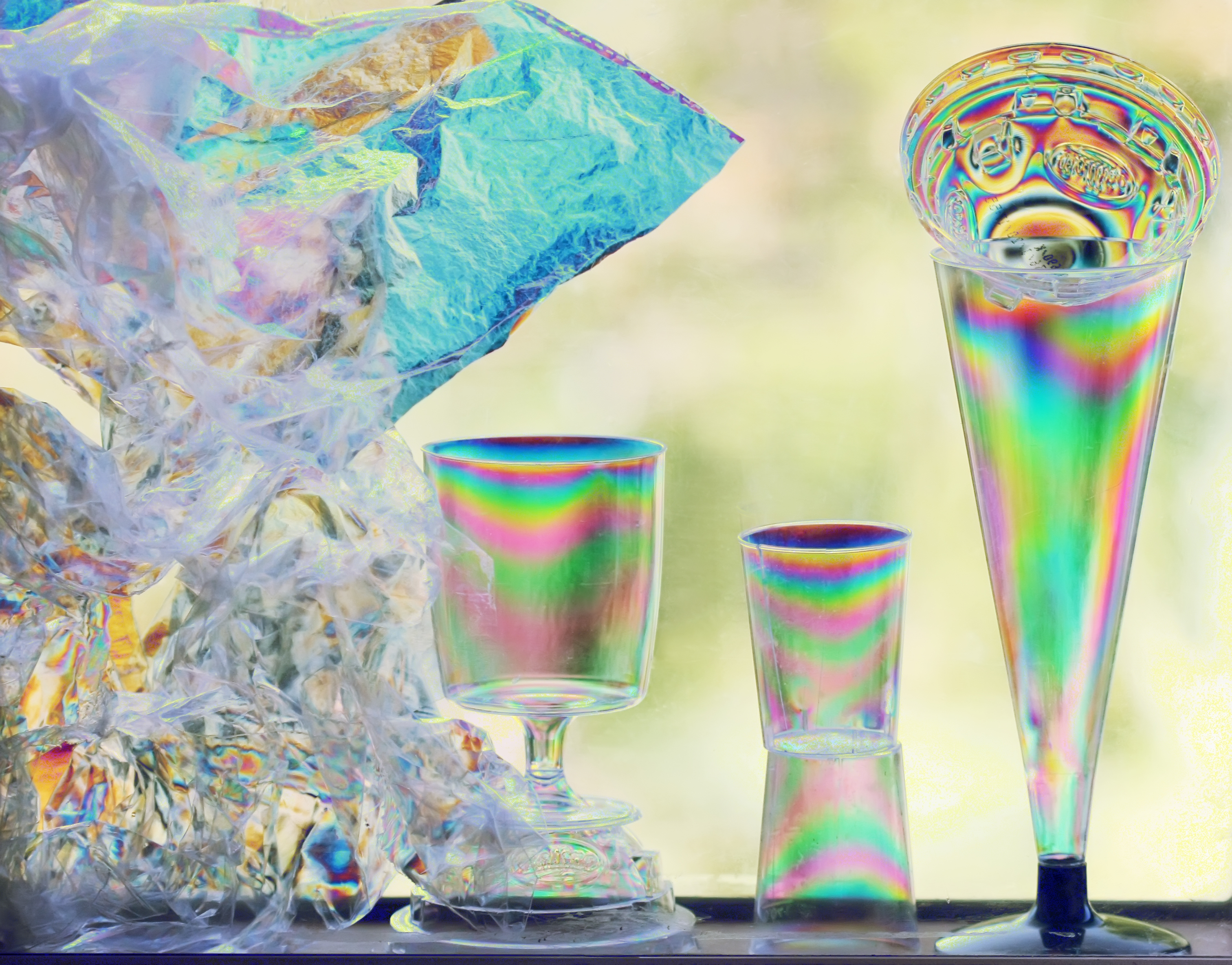 cellophane and plastic cups